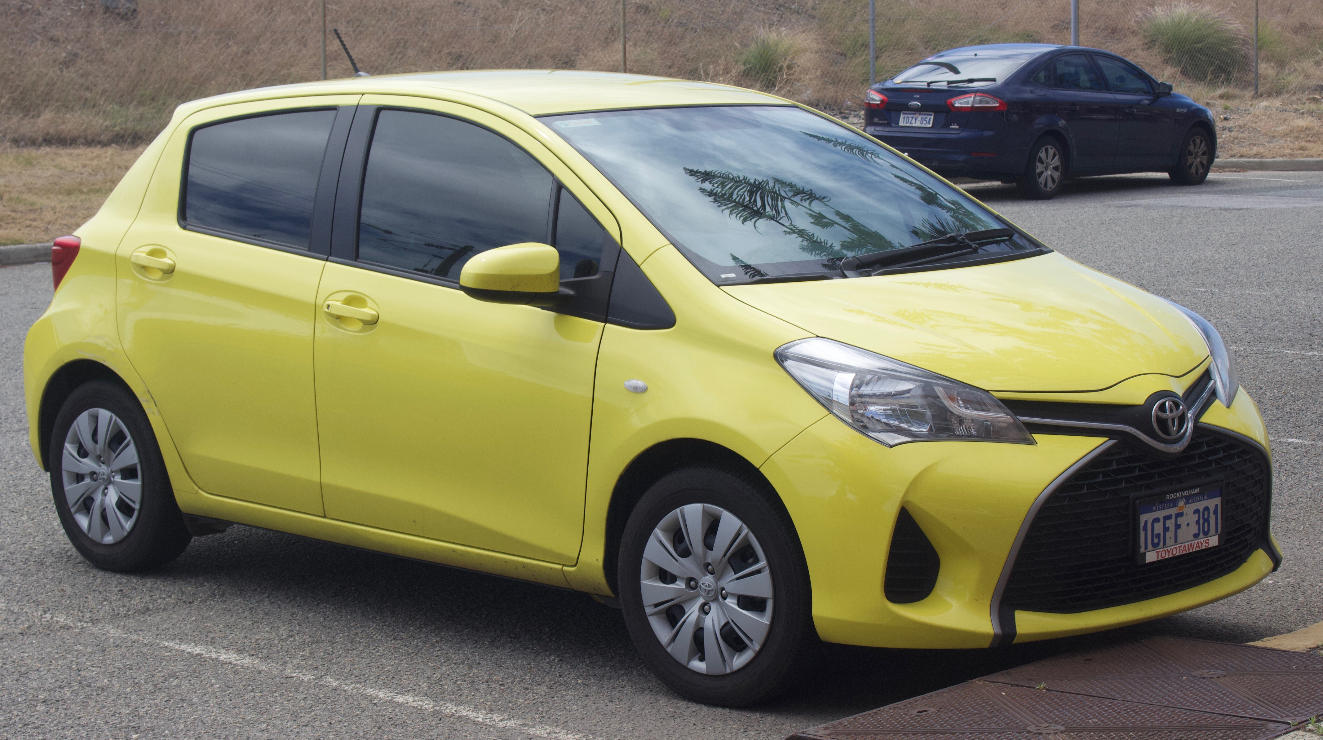 2017 Toyota Yaris (NCP130R) Ascent 5-door hatchback. Photographed in Fremantle, Western Australia, Australia.